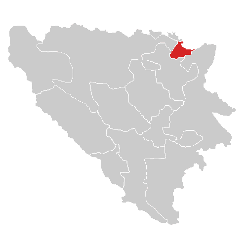 Blank map of Bosnia and Herzegovina, Brčko district highlighted